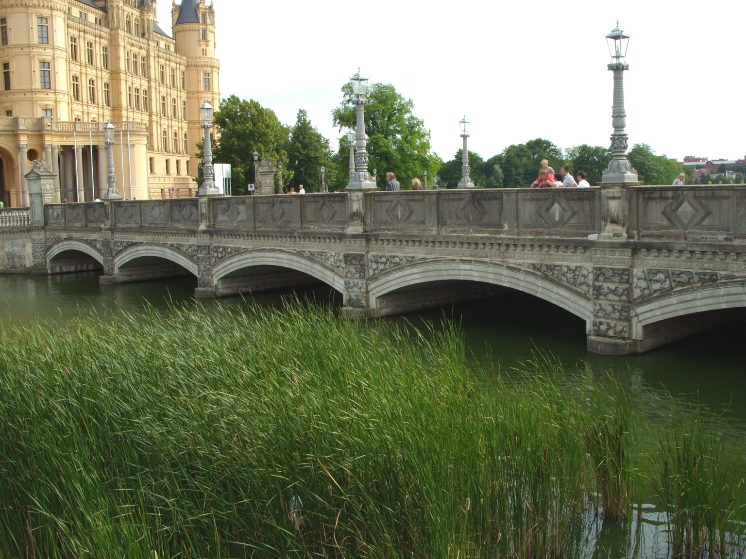 brigde at Schwerin Castle, Germany